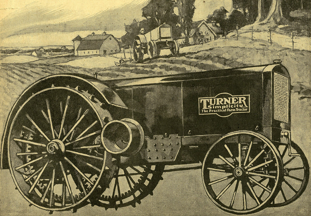 Turner Simplicity tractor – Manufactured in Port Washington, Wisconsin and advertised in the April 26th issue of Country Gentleman. Interesting history